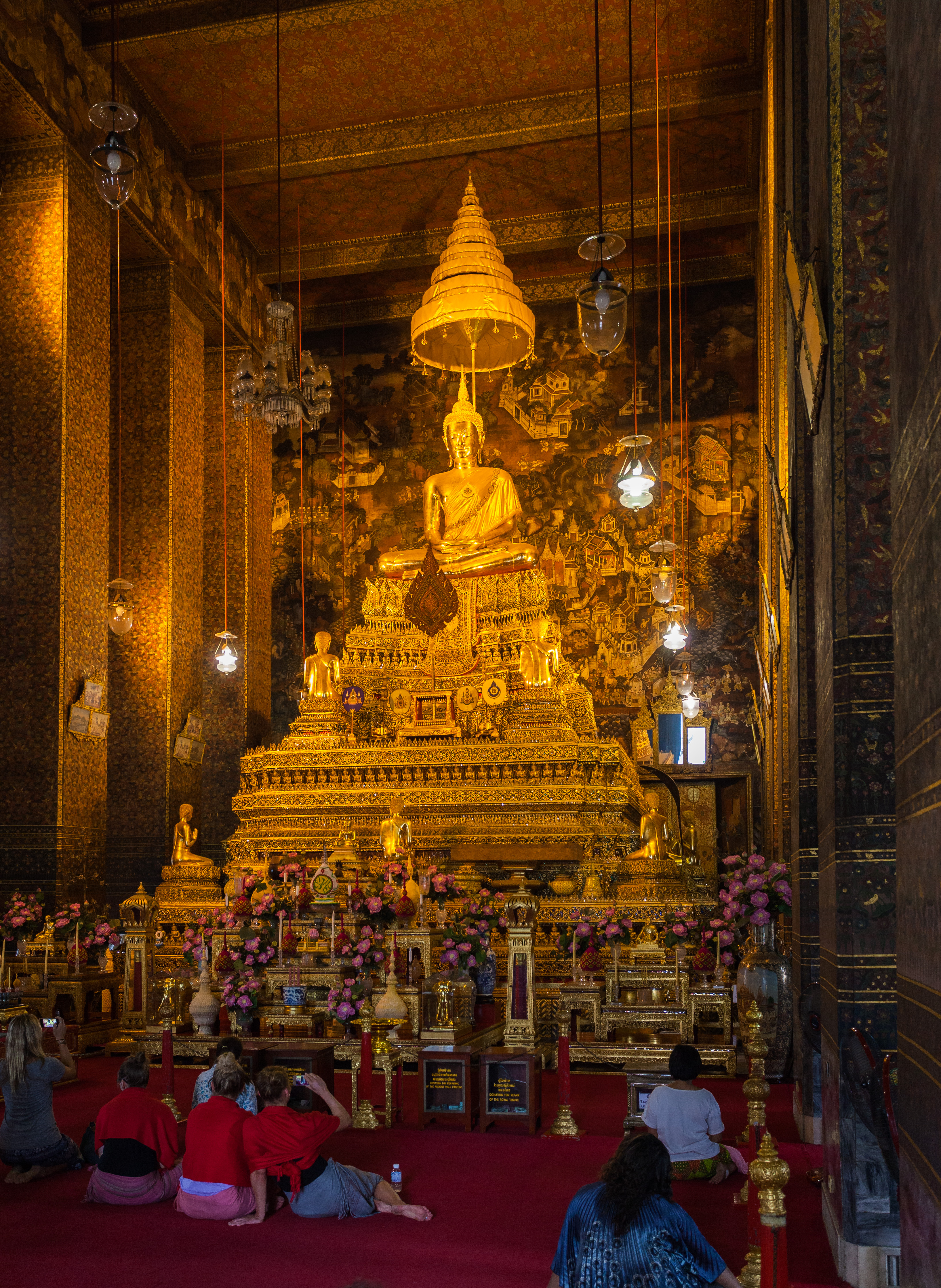 Phra Phuttha Thewa Patimakon, Ubosot (ordination hall) of Wat Pho, Bangkok, Thailand